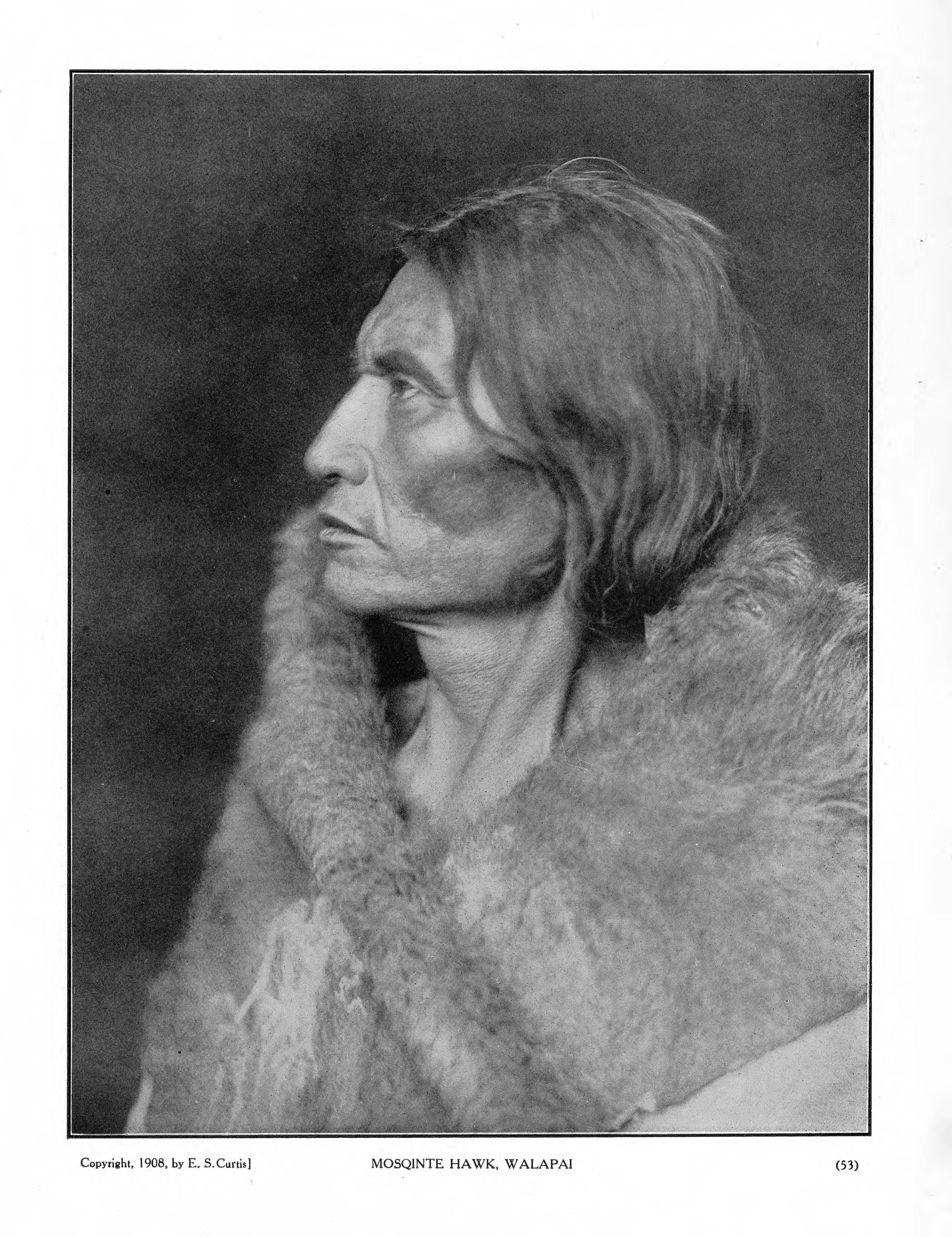 "Mosqinte Hawk, Walapai" (1908). An elderly Hualapai man ("Walapai" is now spelled "Hualapai"). From the materials for theAlaska-Yukon-Pacific Exposition of 1909, held in Seattle.